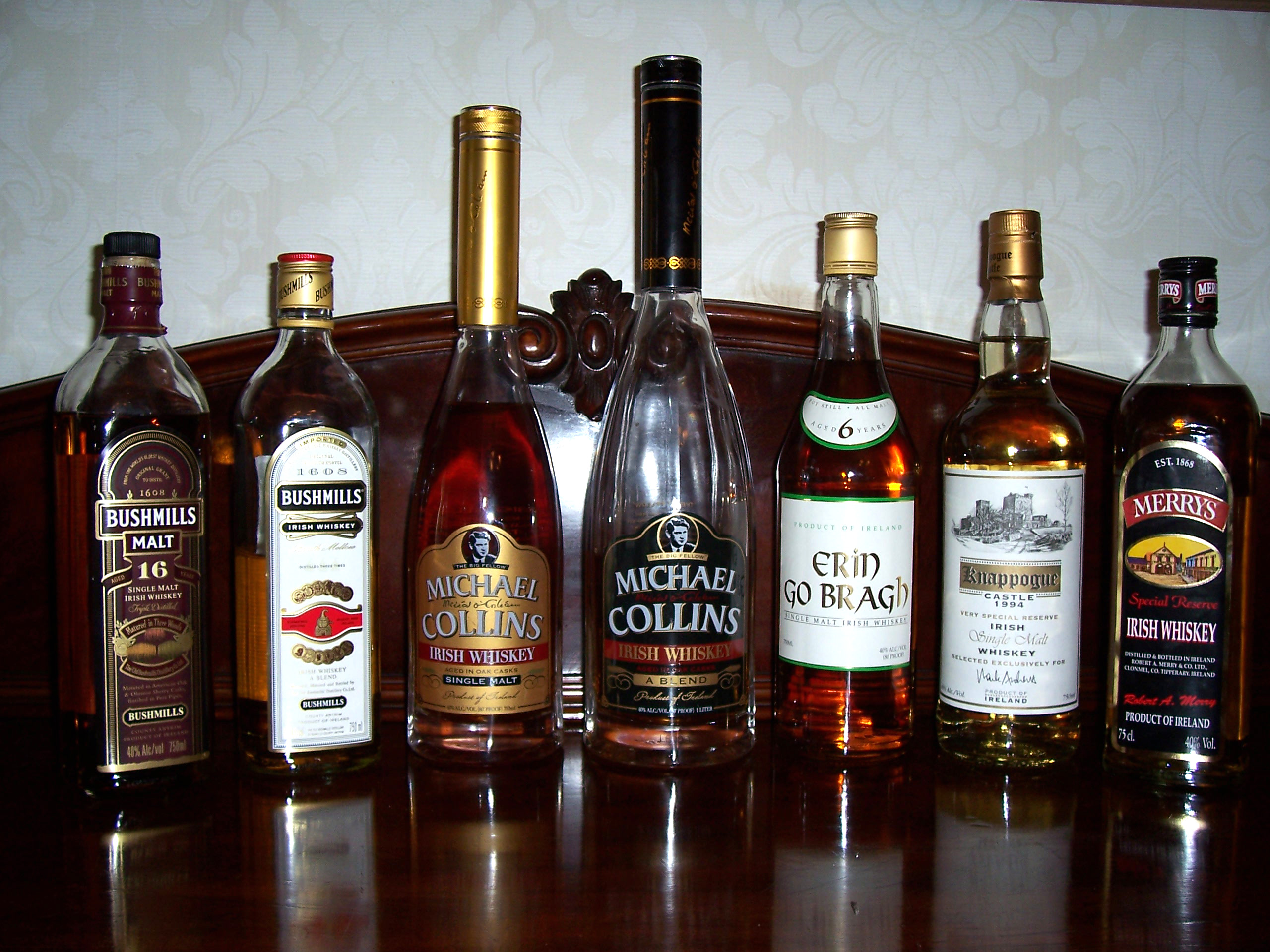 Irish whiskeys photographed by Cafe Irlandais